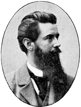 Image scanned from the book "Svenskt Porträttgalleri XX - Arkitekter, Bildhuggare, Målare m.fl. " ("Swedish Portrait Gallery XX - Architects, Sculptors, Painters, ") published 1901